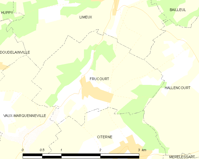 Map of French municipality Frucourt